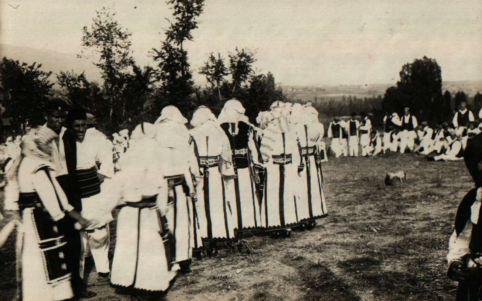 Macedonia